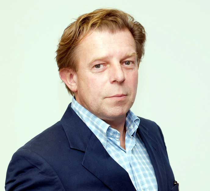 Martin Leyer-Pritzkow, photographed by Hartmut Bühler, 2012